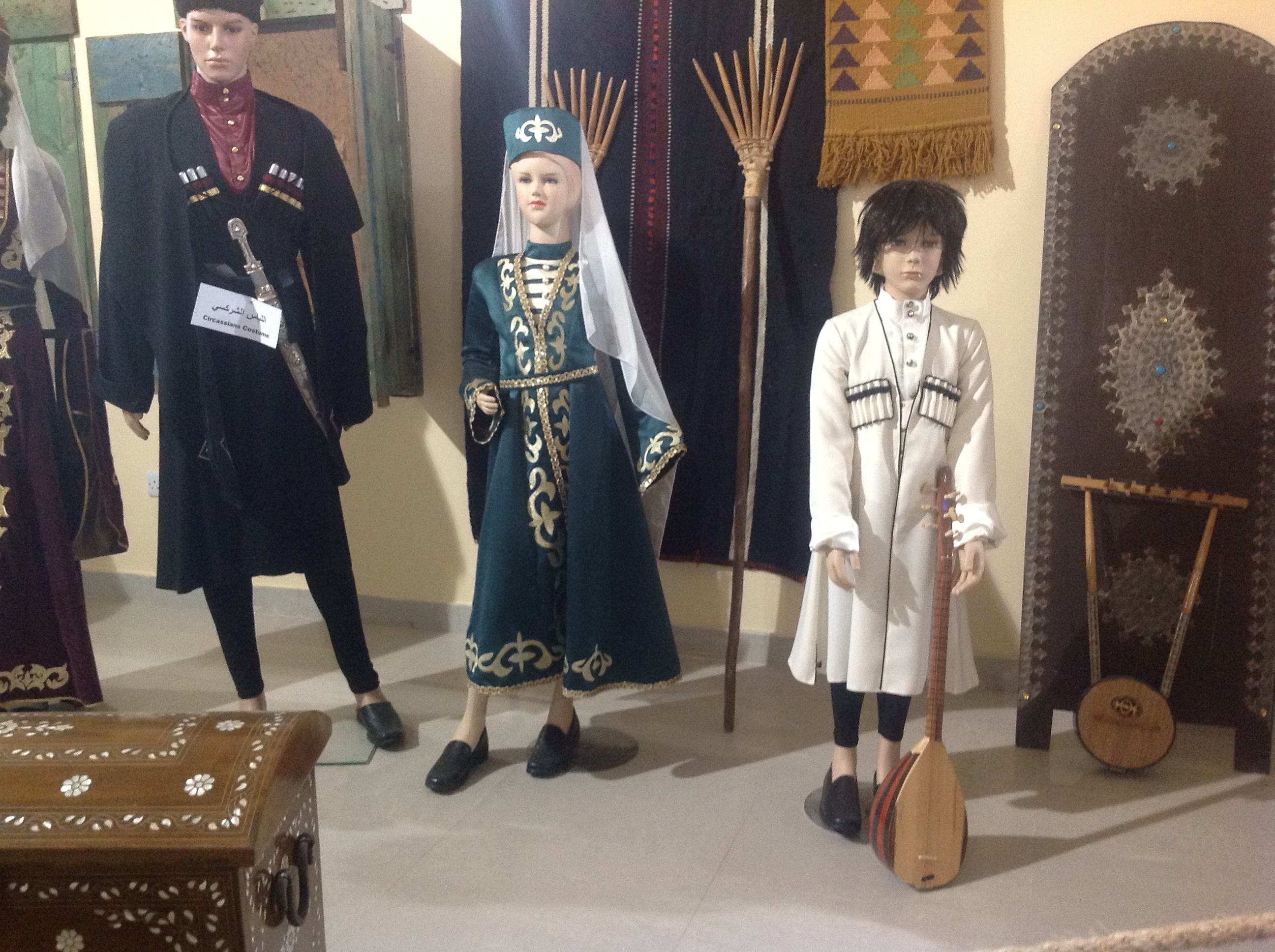 أزياء الشركس